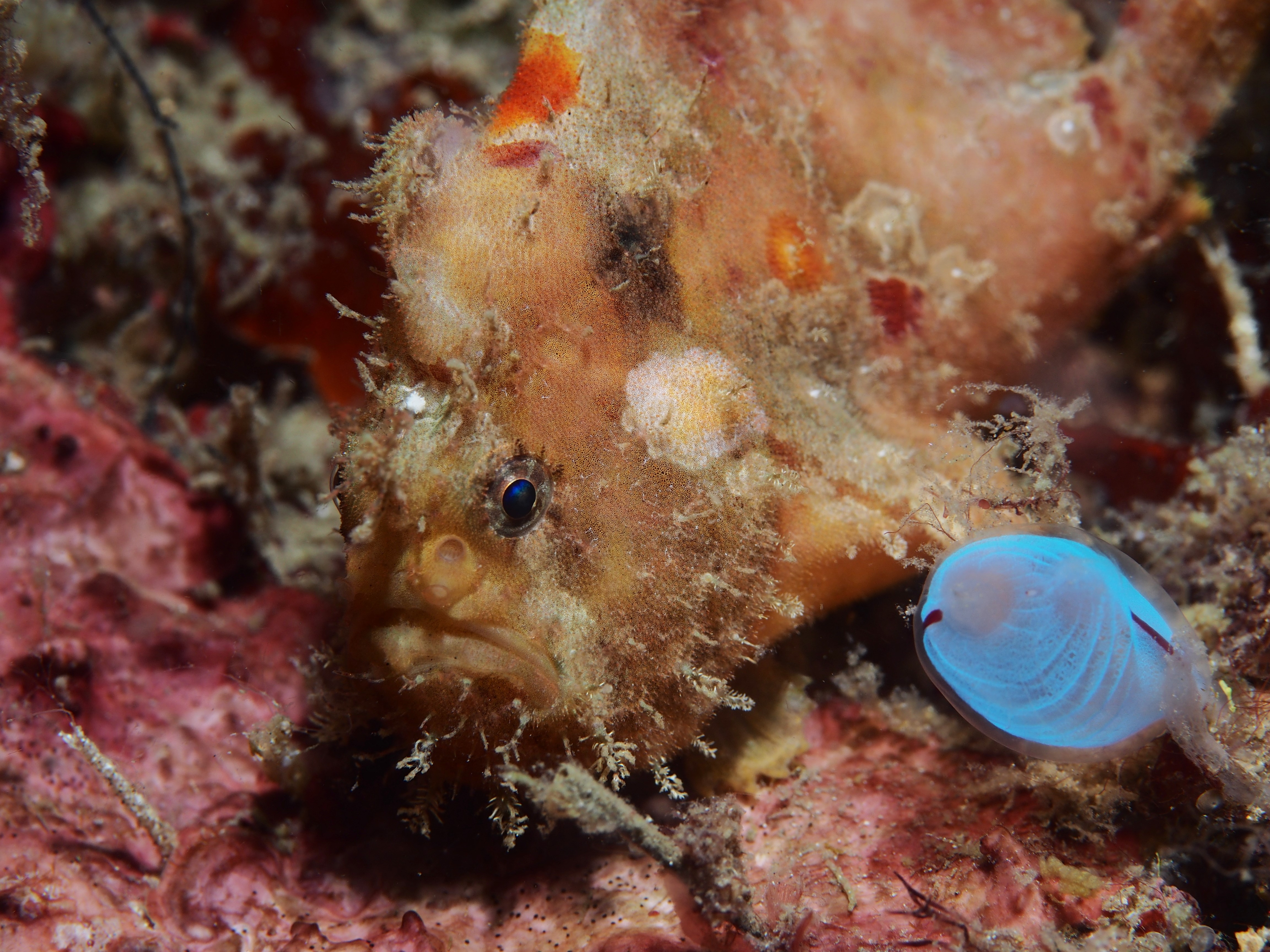 Diving Lembeh with Divers Lodge Lembeh over new years 2015/2016 / Indonesia - Freckled Frogfish (Antennatus coccineus)